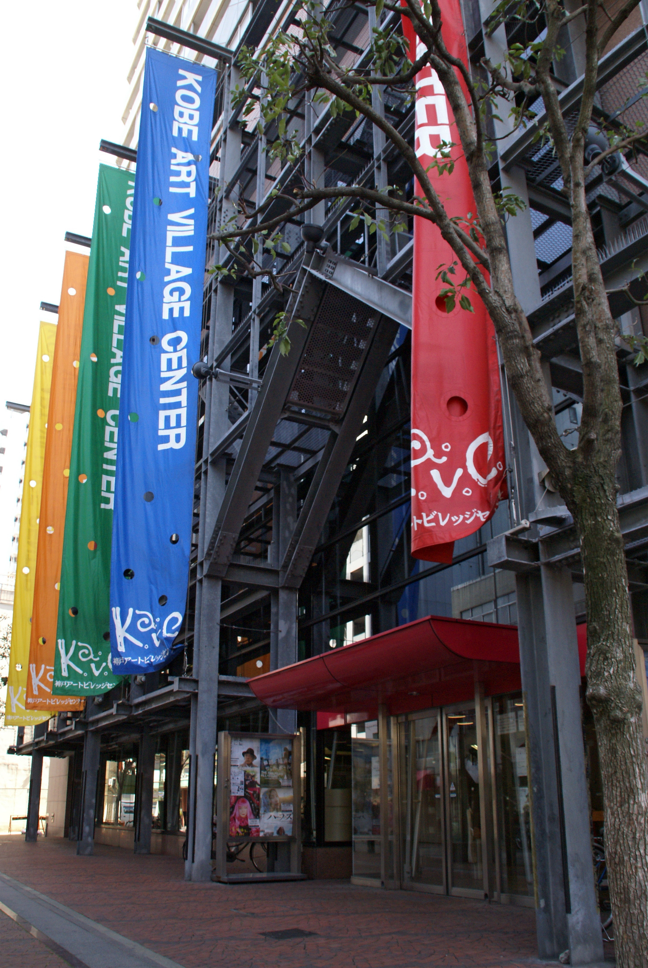 Kobe Art Village Center in Kobe, Hyogo prefecture, Japan